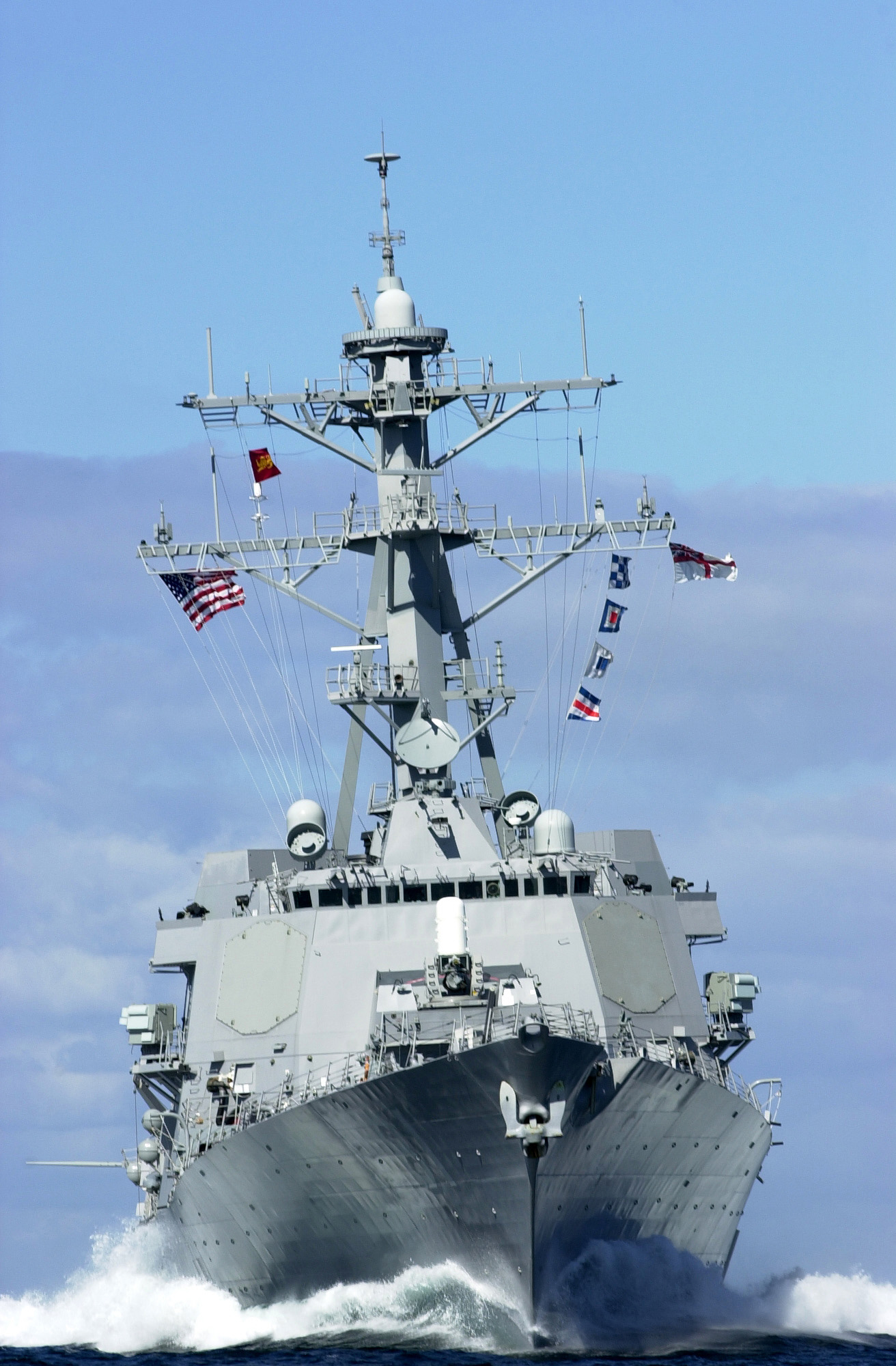 010913-N-6967M-504 At sea with USS Winston S. Churchill (DDG 81) Sep. 13, 2001 -- USS Winston S. Churchill makes a high-speed run in the English Channel. The destroyer, based in Norfolk, Va., is making its first deployment to the United Kingdom and Norway. The Churchill is the only U.S. Navy vessel in active service named after a foreign dignitary. The ship is named in honor of Sir Winston Leonard Spencer-Churchill (1874-1965), best known for his courageous leadership as the British Prime Minister during World War II. U.S. Navy photo by Photographer’s Mate 2nd Class Shane T. McCoy. (RELEASED)